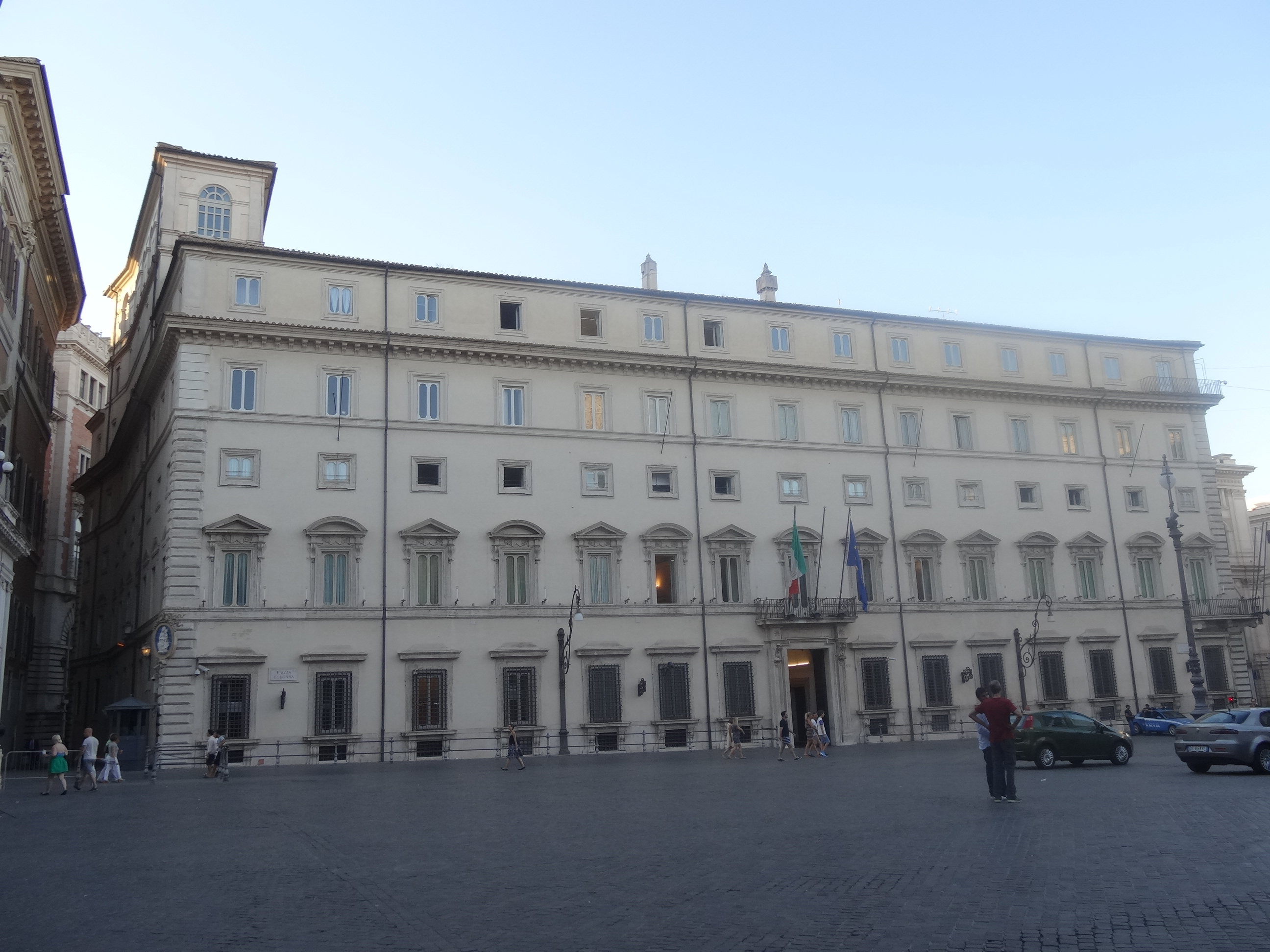 August 2016 in Rome. Palazzo Chigi